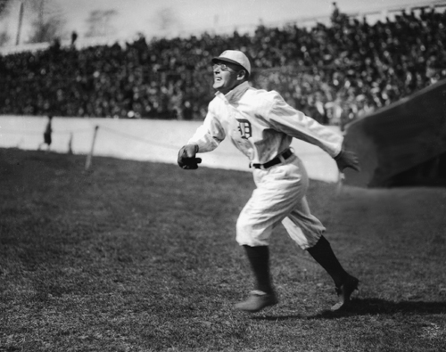 Baseball player Sam Crawford with sunglasses, 1912